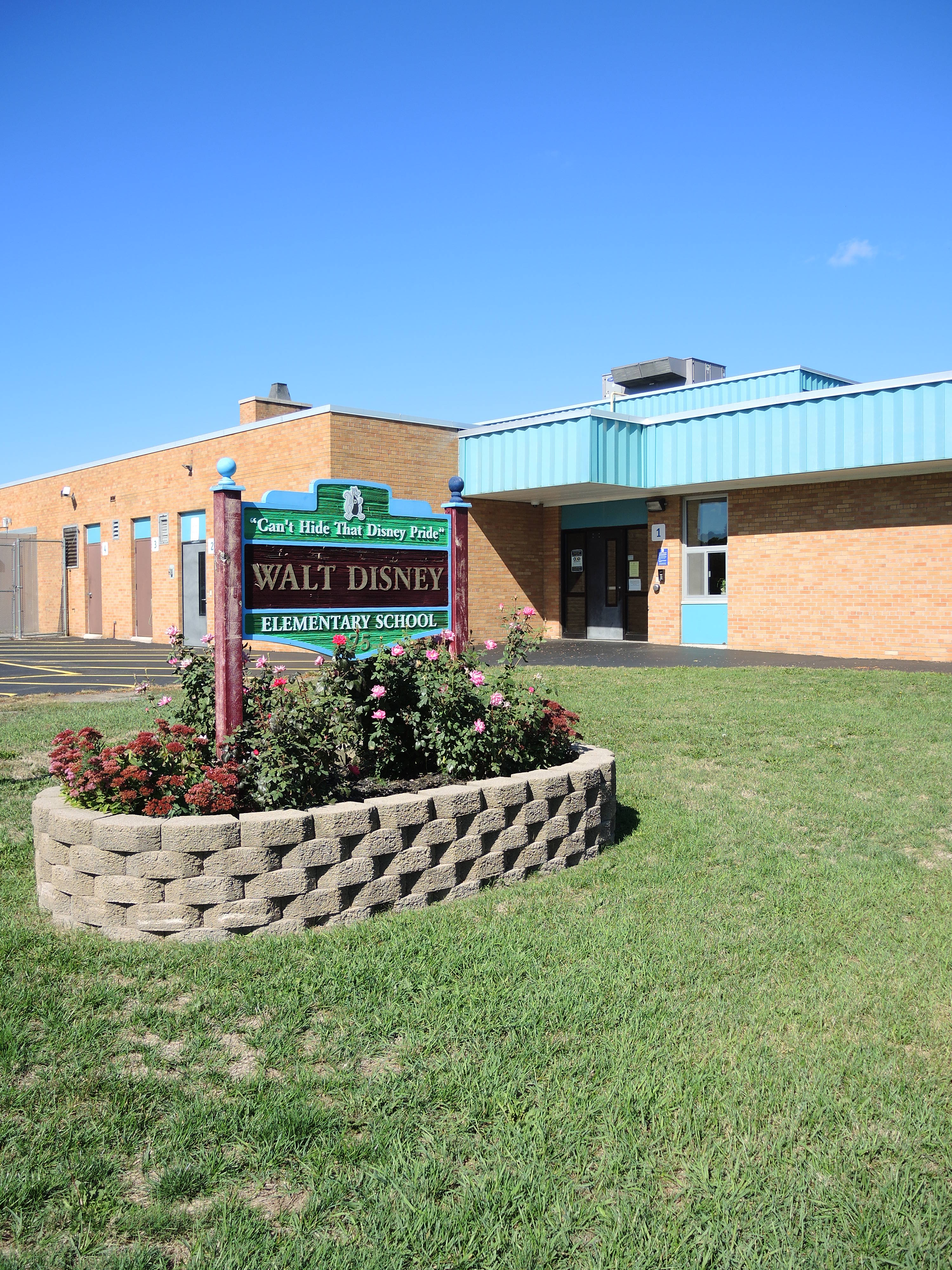 Entrance to the Walt Disney Elementary School in Gates, New York